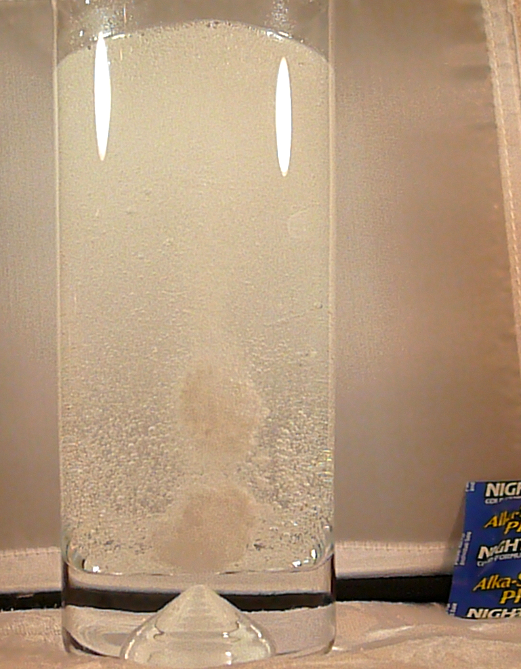 Alka-Seltzer Plus dissolved in water.